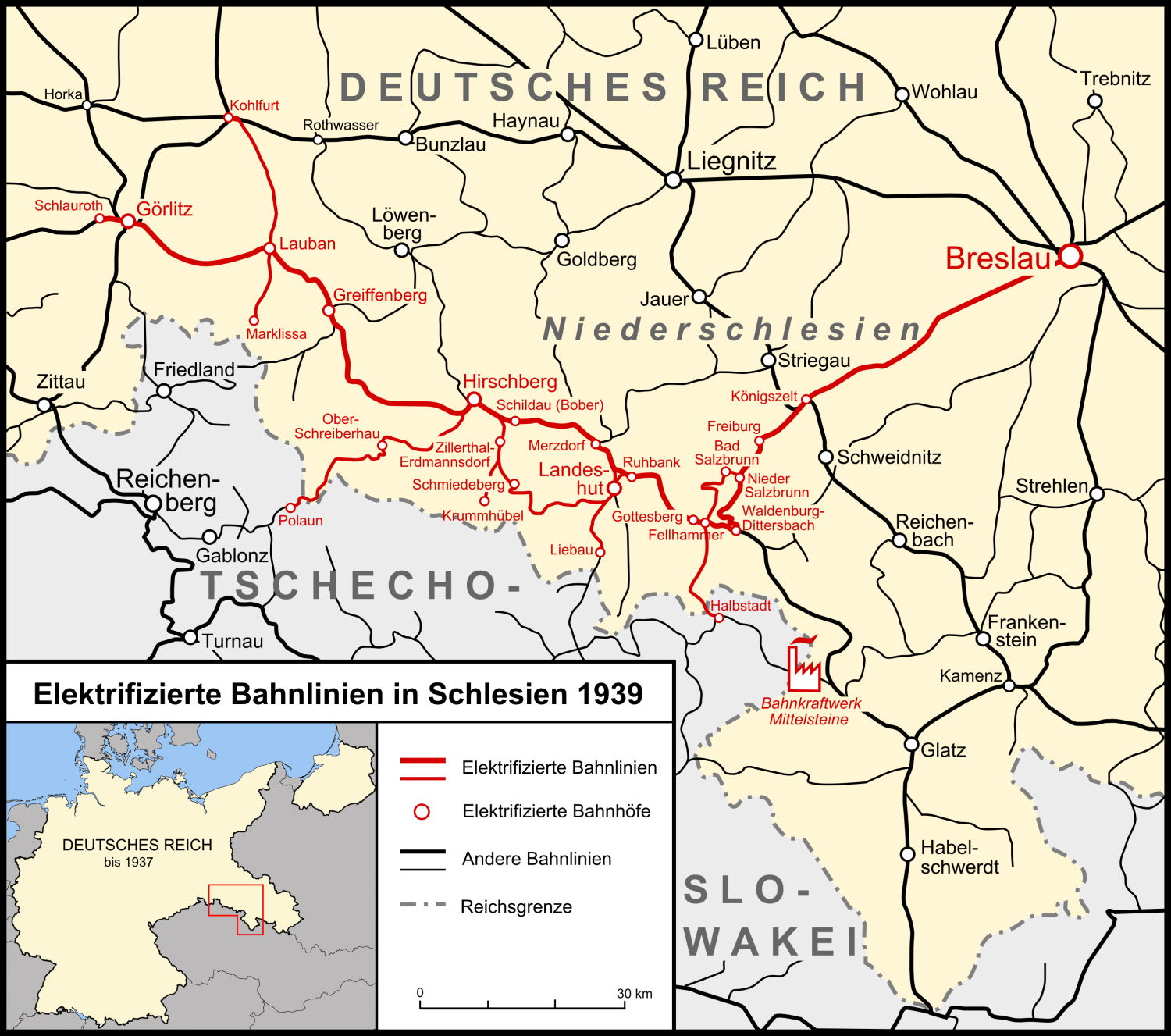 Map of the railway network in Silesia and adjacent regions. Electrified lines in red, non-electrified lines in black. Please note the border of Czechoslovakia was shifted in 1938 (not shown on this map) and in March 1939 Czechoslovakia ceased to exist.